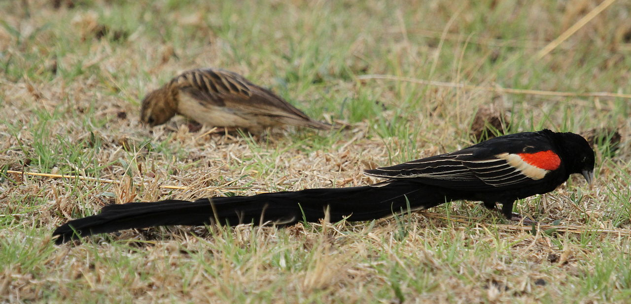 Male with female in the background.